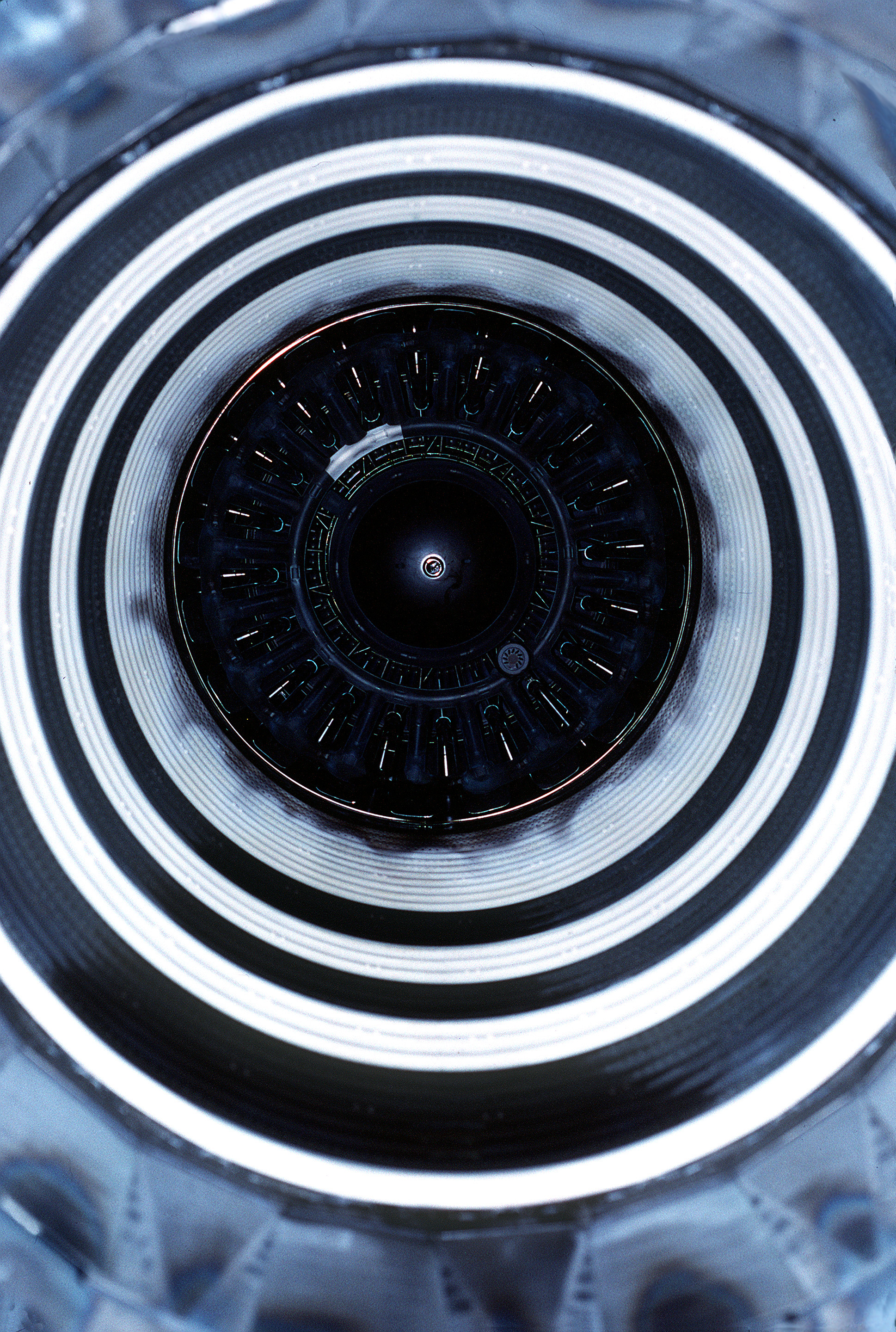 A close-up view through the exhaust nozzle of one of the General Electric F110 engines on a Fighter Squadron 31 (VF-31) F-14D Tomcat aircraft. Location: NAVAL AIR STATION, MIRAMAR, CALIFORNIA (CA) UNITED STATES OF AMERICA (USA)